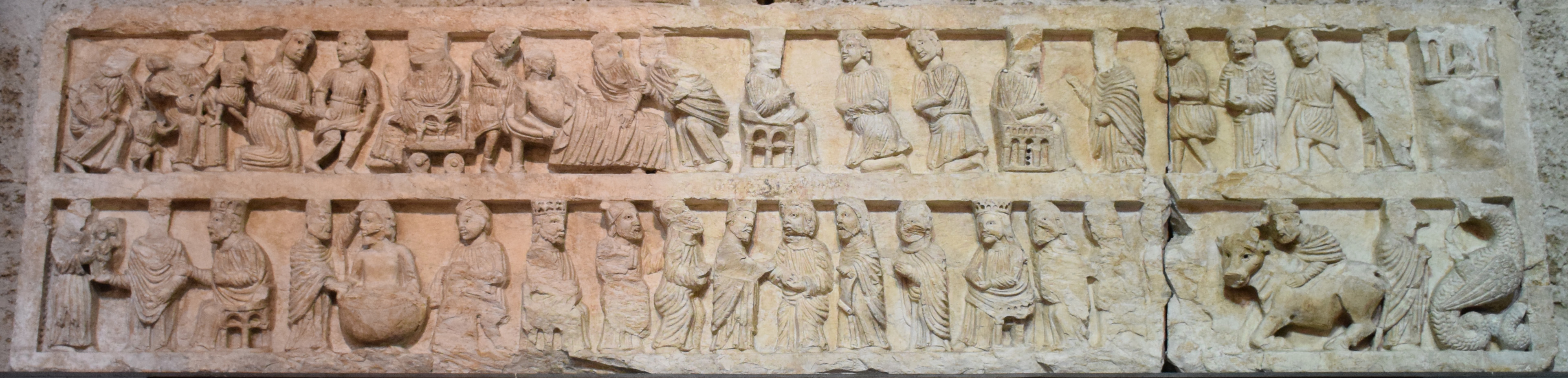 Architrave con storie di San Silvestro del secolo XII, proveniente dalla Chiesa di San Silvestro